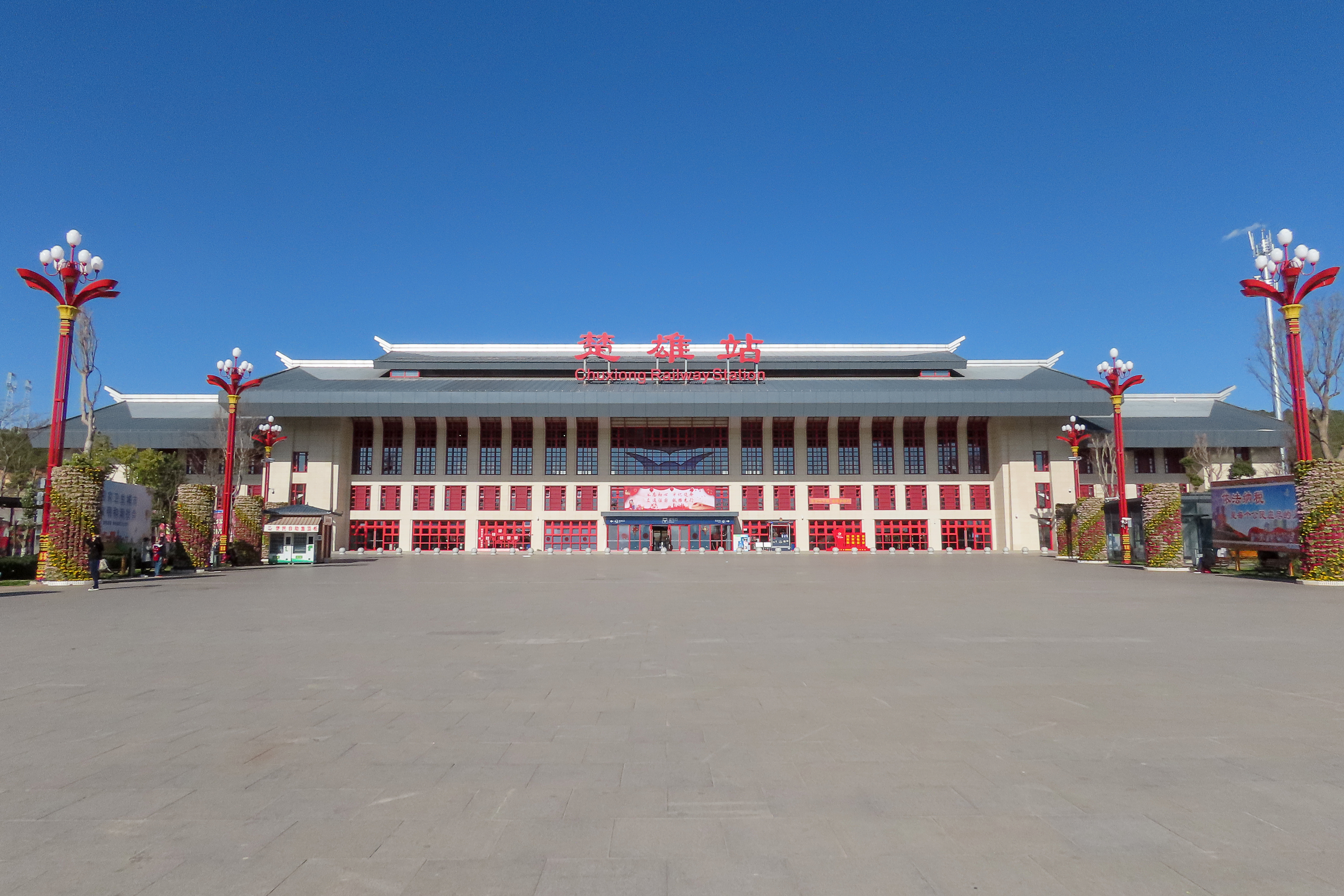 Now it's the main station... although some roads are not yet completed.